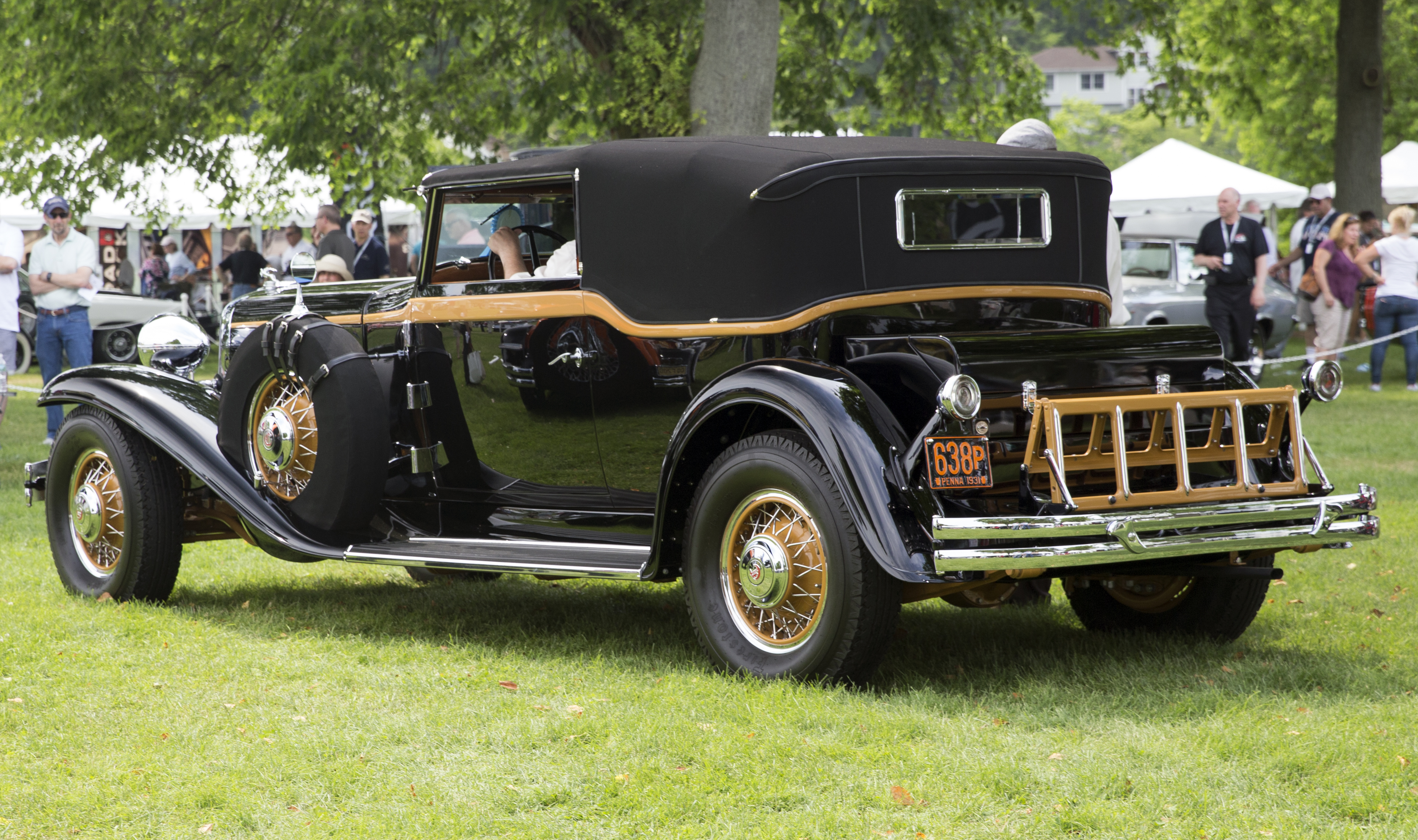 1931 Chrysler Imperial CG Convertible Victoria by Waterhouse displayed at the 2018 Greenwich Concours d'Elegance. One of three survivors, this example is owned by Mr. & Mrs. Henry W. Hallowell, III. 384ci 125hp. More here.